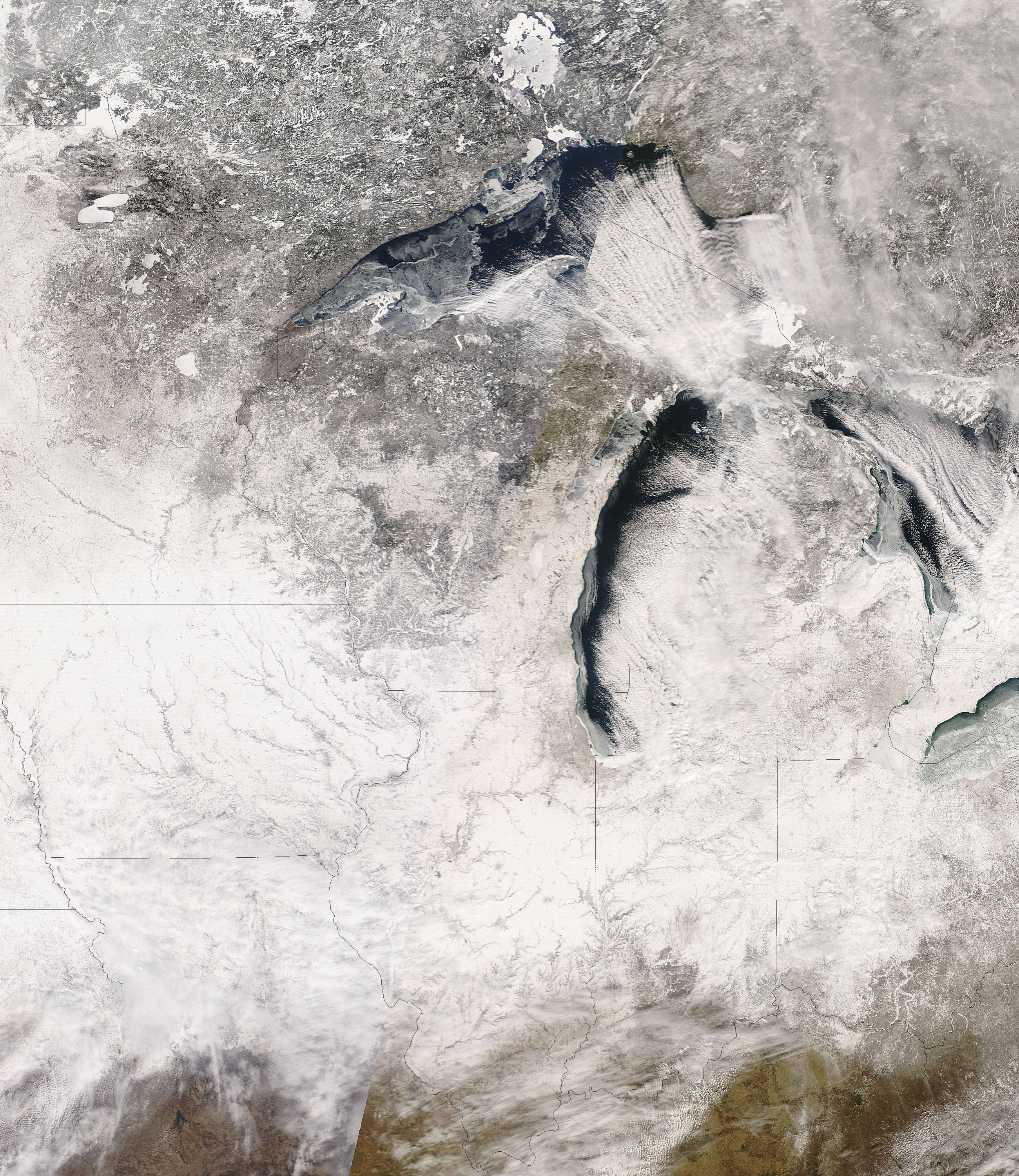 The Great Lake states shown after receiving a lot of snowfall from the February 2007 North America winter storm.